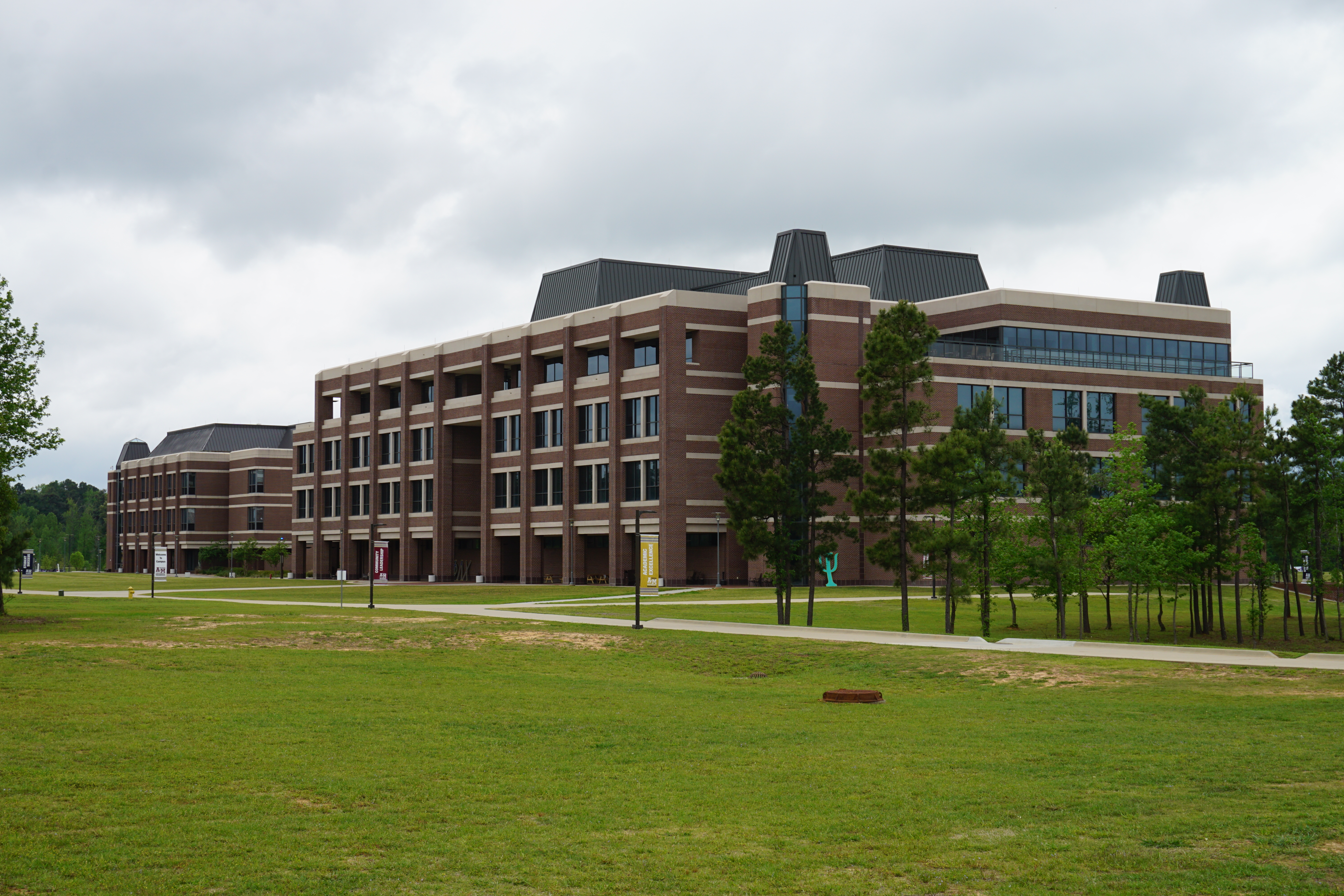 The University Center and the Science & Technology Building on the campus of Texas A&M University–Texarkana in Texarkana, Texas (United States).